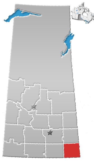 Saskatchewan census area No. 01